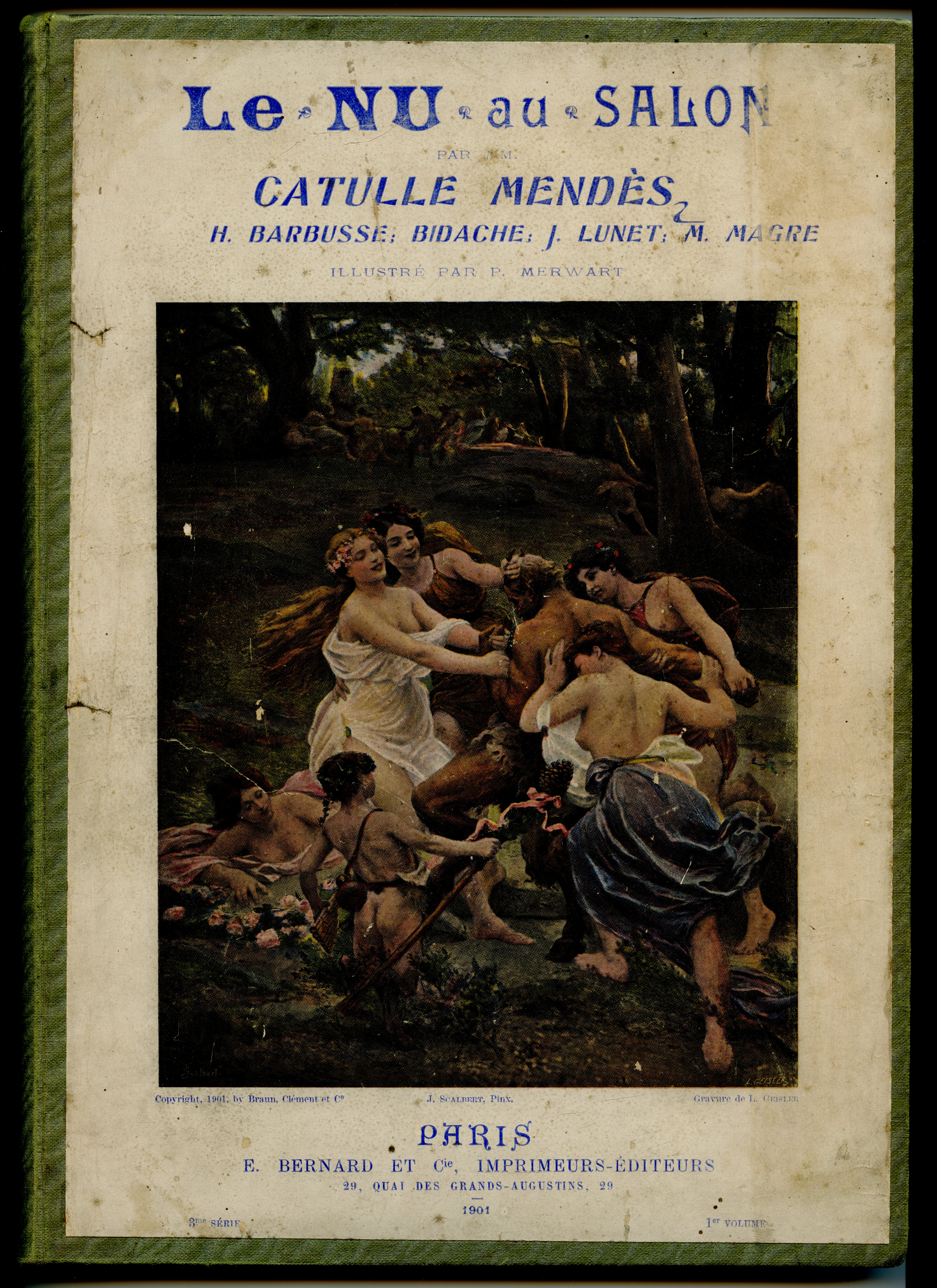 le nu au salon 1900 (published in 1901) test scan of cover, full book scan is pending. cover image is of a painting by Jules Scalbert, gravure de L Geisler; title of work = Nymphes et Satyre ? (or simplye "Faune"?)